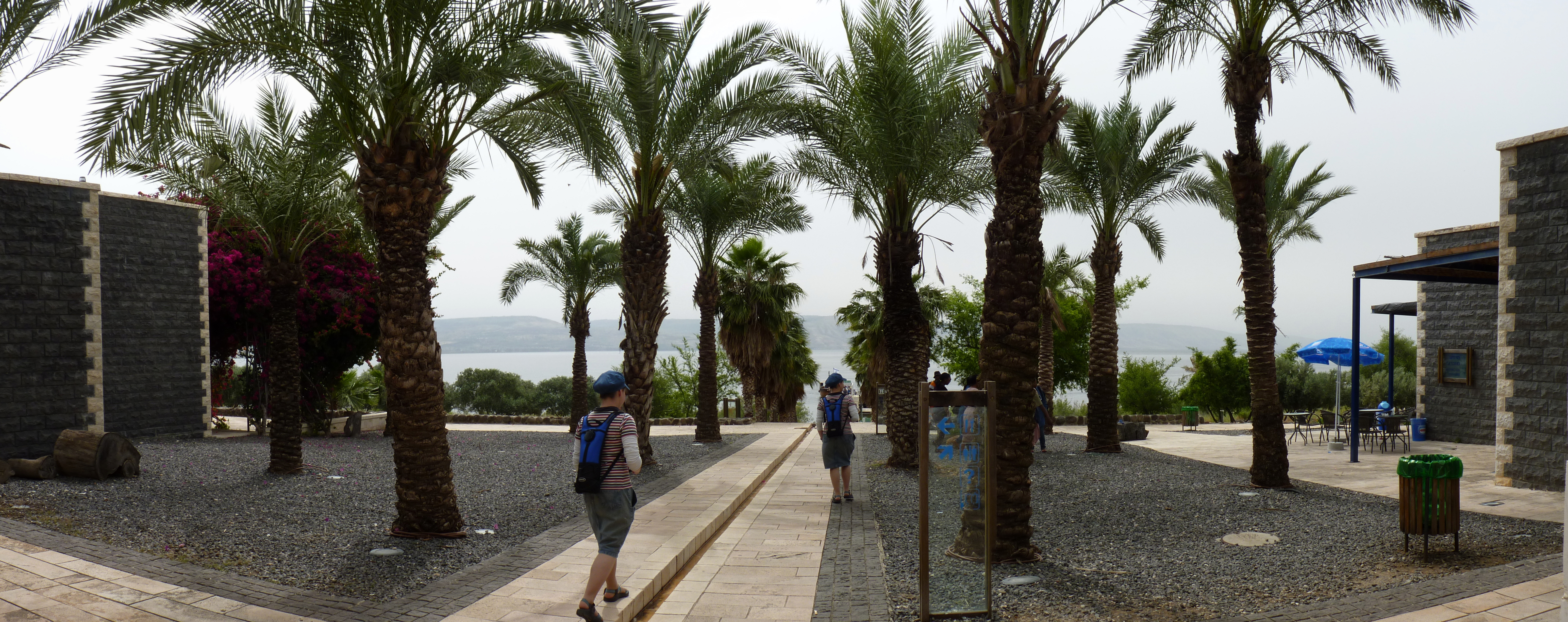 Panorama 1 Kfar Naum (Capernaum). National park and remains of a fishing village from the time of the Second Temple, on a site that was the focus of Jesus’ Galilee ministry The antiquities are under the aegis of the Franciscan Church. The national park around the antiquities site is under the aegis of the Israel Nature and Parks Authority.